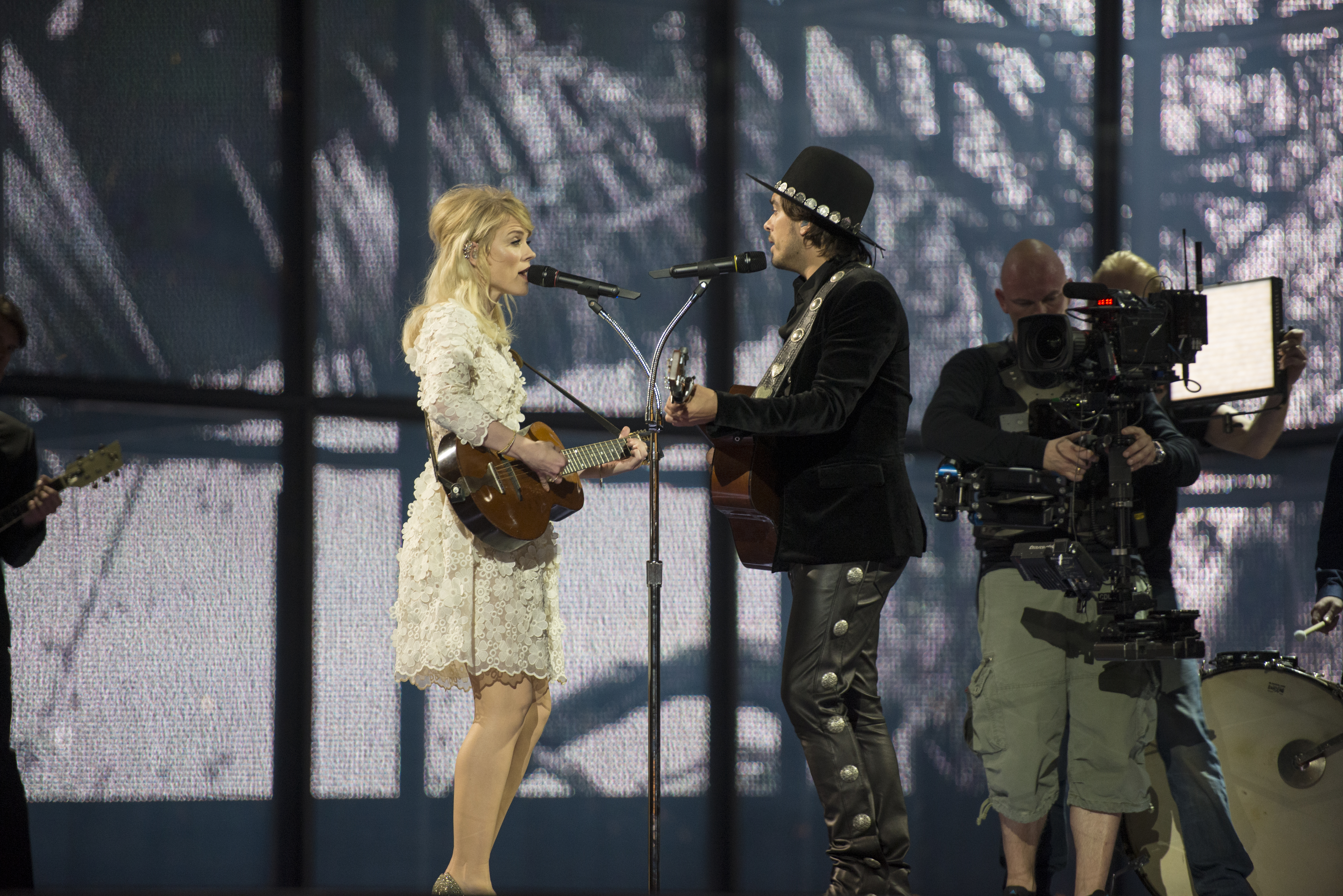 Q15229258 representing Q55 with the song "Q15891515" during the first dress rehearsal of the first semi final of the Q5354210 Q1748. (Help translate this text)